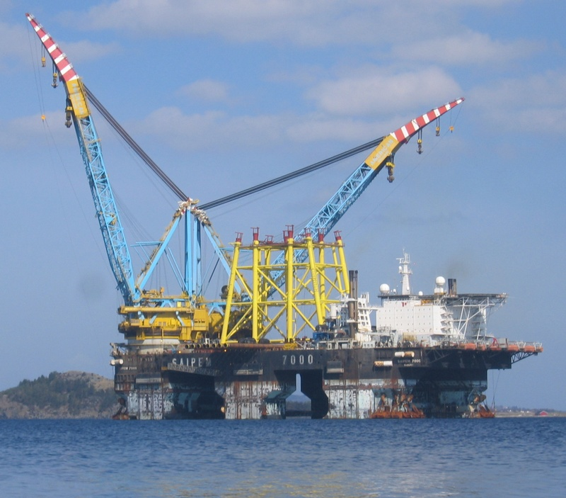 Saipem 7000 in April 2006,in the Åmøyford, Norway. The vessel is holding station using its dynamic positioning system. The yellow construction on deck is a through leg pile jacket to be installed offshore Canada. The jacket will form the foundation for a Gas Compression platform which is part of the ExxonMobile Sable Island Development.